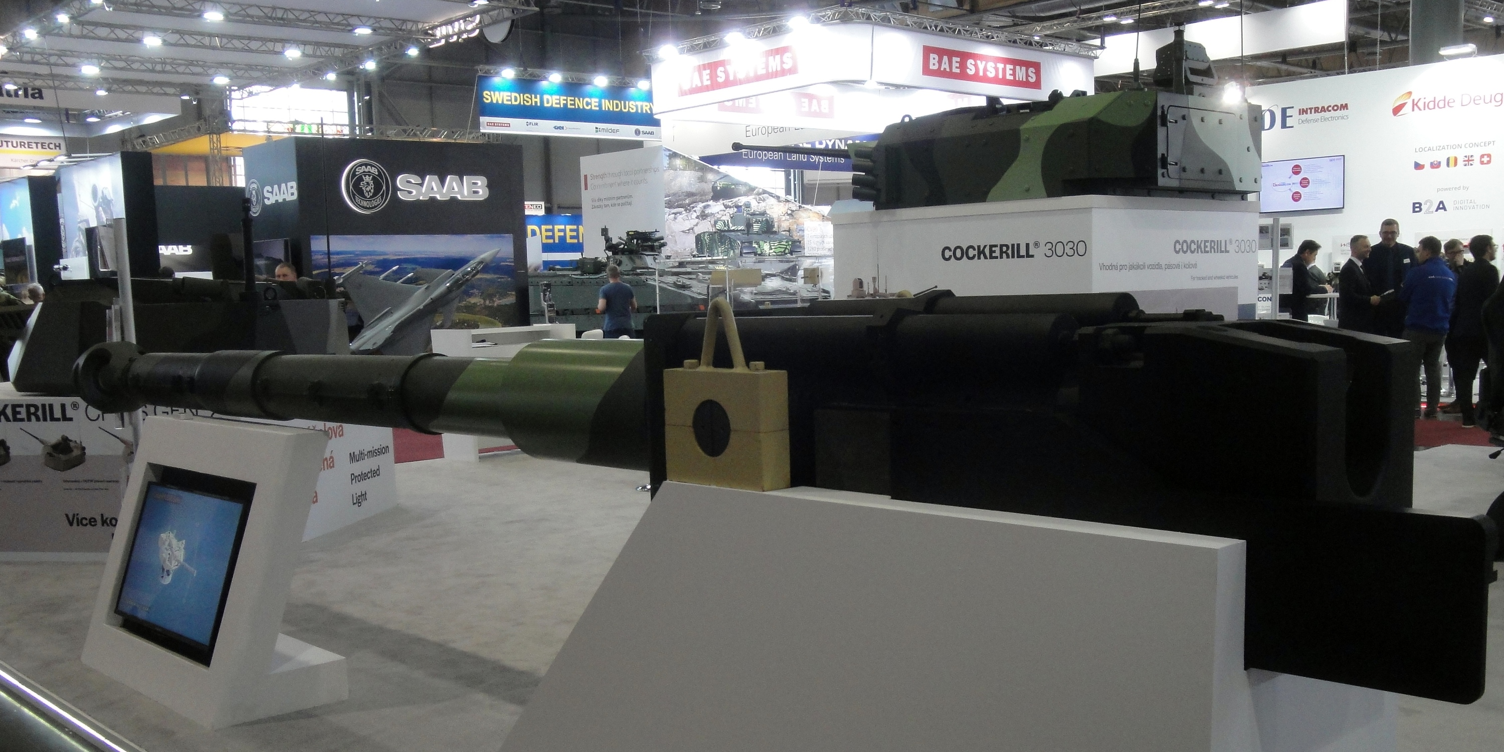 Cockerill 105 HP Gun (and Cockerill 3030 in the background), John Cockerill Defense, IDET/PYROS/ISET 2019, Brno